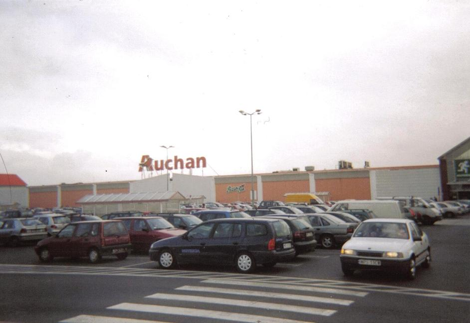 Auchan Hypermarket in Piaseczno, Poland (at the outskirts of Mysiadło village).